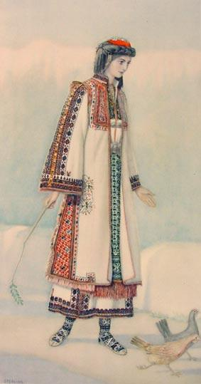 Greek Macedonian Peasant Woman's Dress (Macedonia, Hasia) - Greek Costume Collection by NICOLAS SPERLING (Russia 1881-1940 / act: Athens).